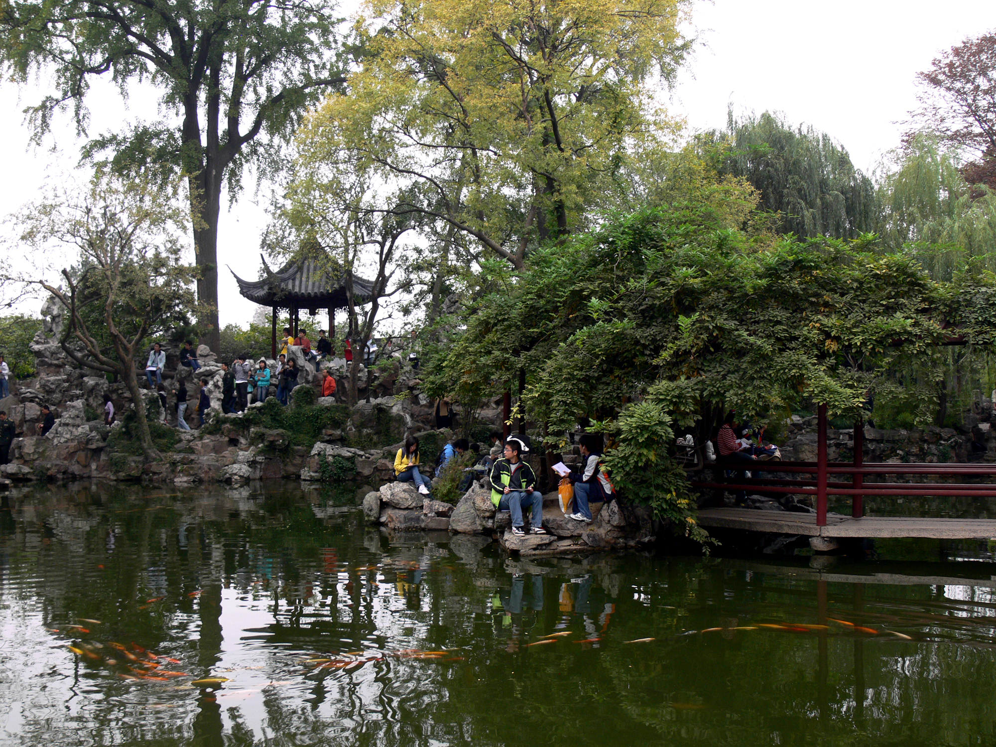 Keging, a pavillion in the Lingering Garden,Suzhou苏州留园可亭